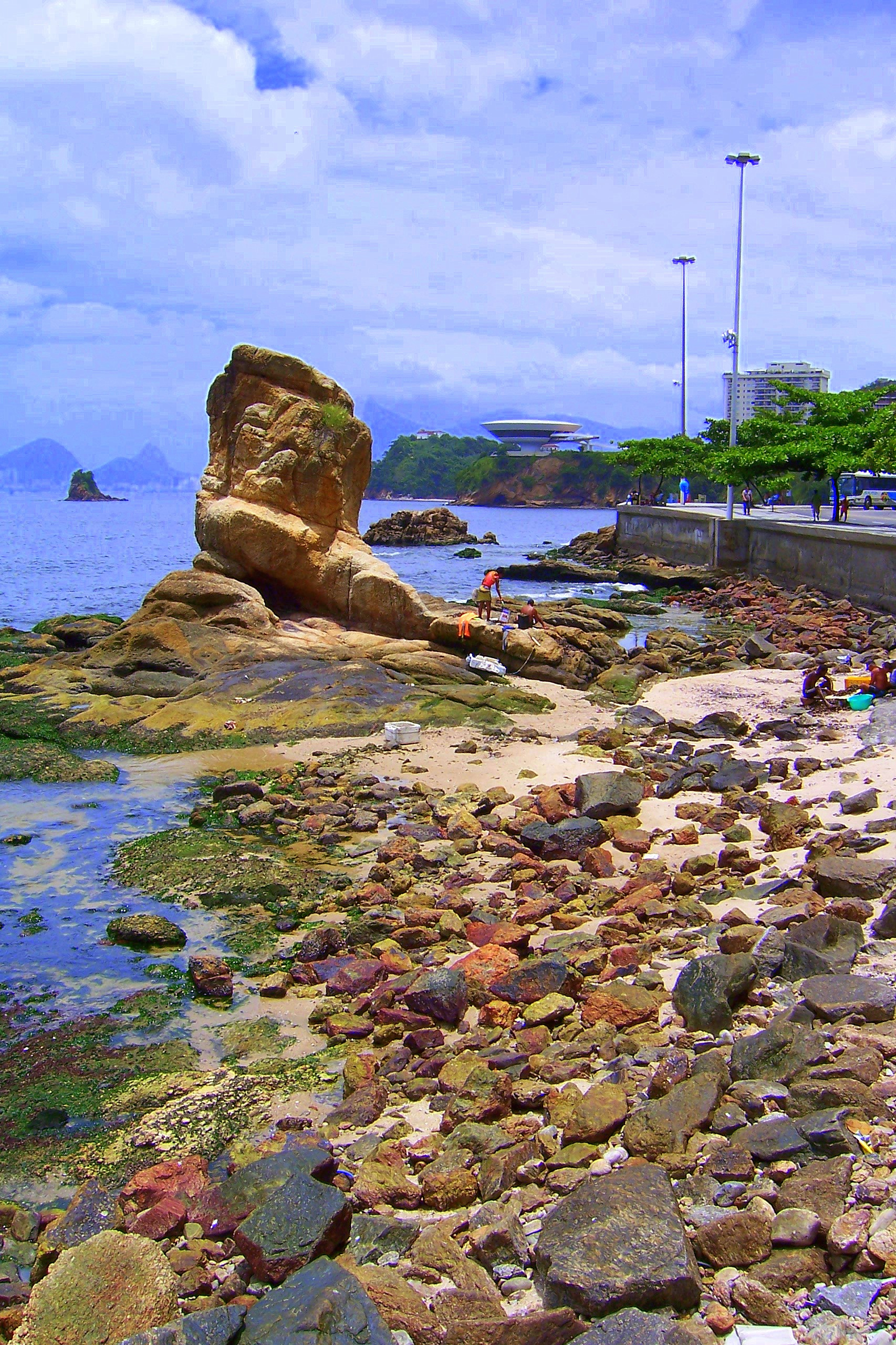 The Itapuca Rock, Niterói, Brazil